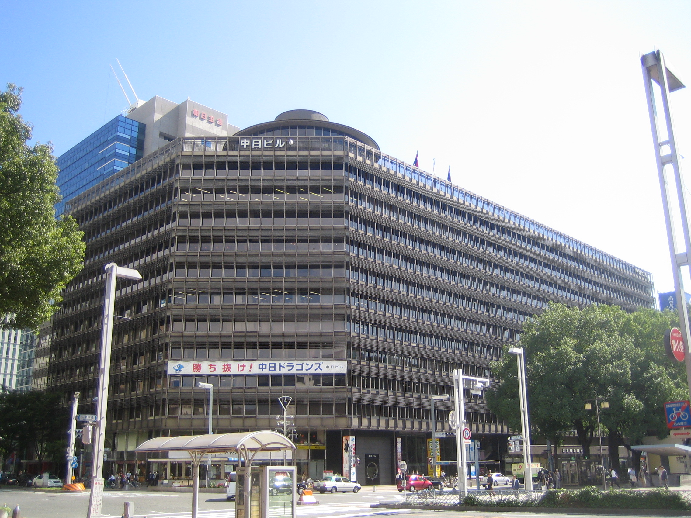 Chubu Nippon Building (中部日本ビルディング), commonly called Chunichi Building (中日ビル), located at Sakae, Naka, Nagoya, Aichi, Japan